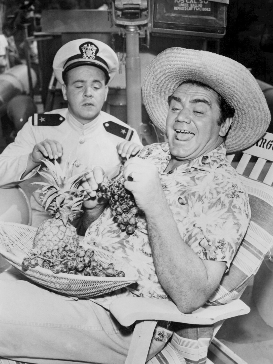 Photo of Tim Conway and Ernest Borgnine from the television program McHale's Navy. In this premiere episode, Ensign Parker (Conway) has just been assigned to McHale's (Borgnine) command and has to learn how to "fit in" with the group.